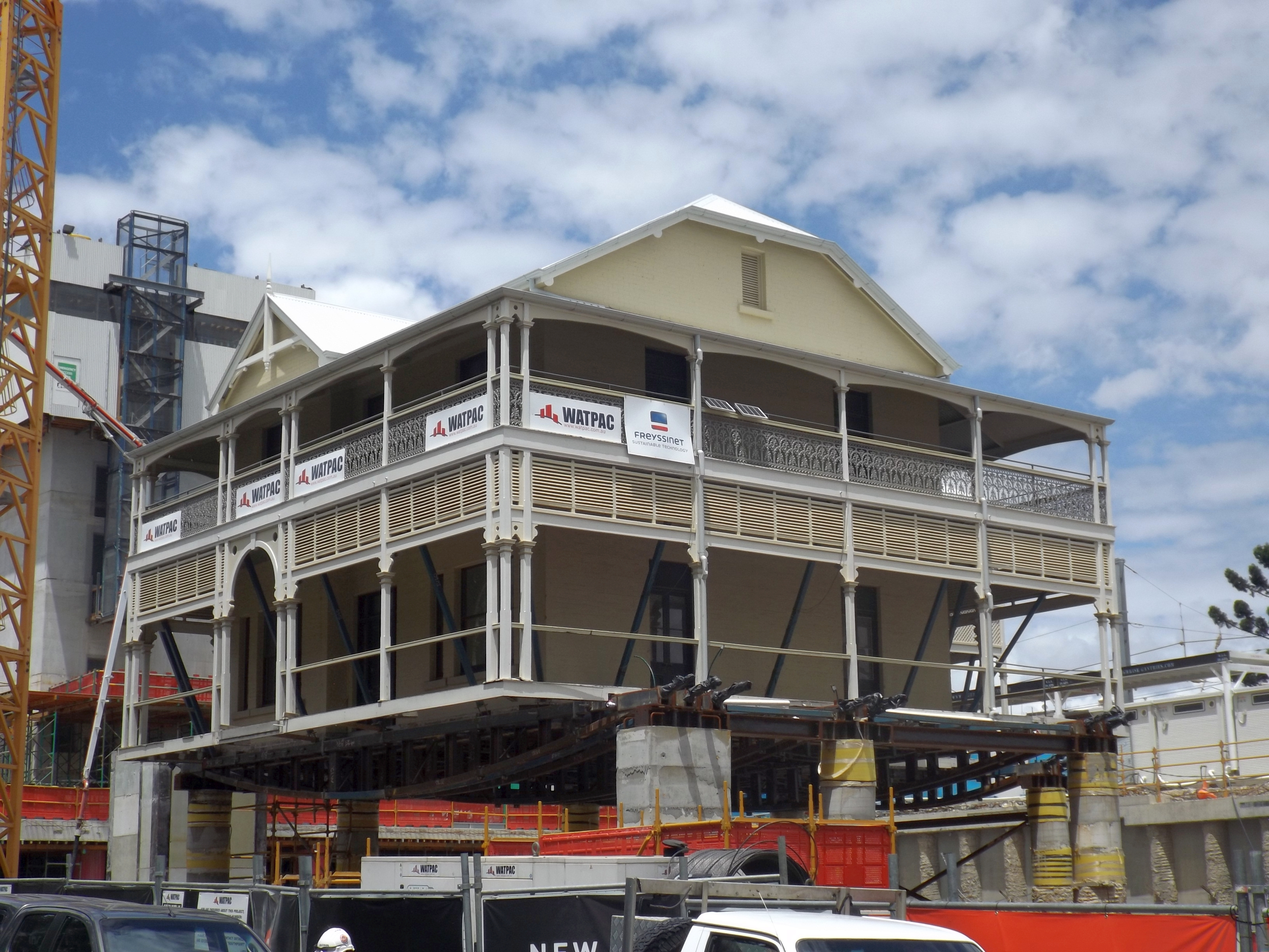 Photo of Collins Place while it is temporarily raised so that construction at the site could proceed. Site is located at South Brisbane, Brisbane, Queensland, Australia.